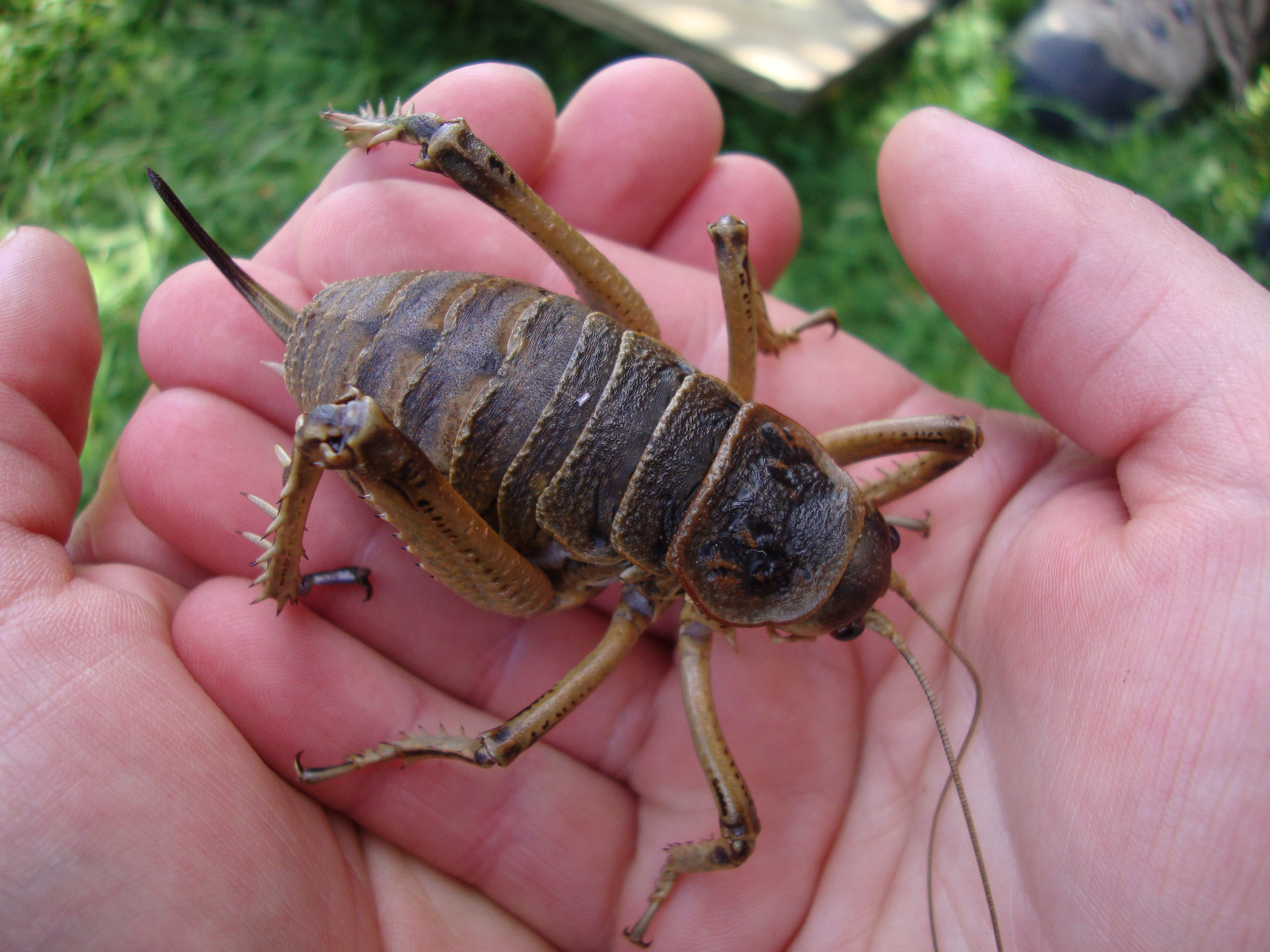 Cook Strait weta found on Matiu/Somes Island in the harbour of Wellington, New Zealand.